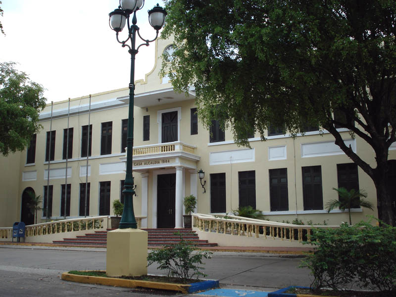 Juncos City Hall. Juncos, PR.